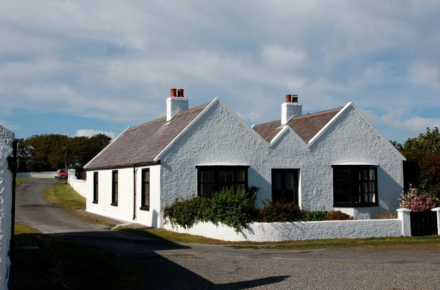 Kearney near Portaferry (5). See 562915. One of the cottages by the shore. It has an uninterrupted view of the sea.